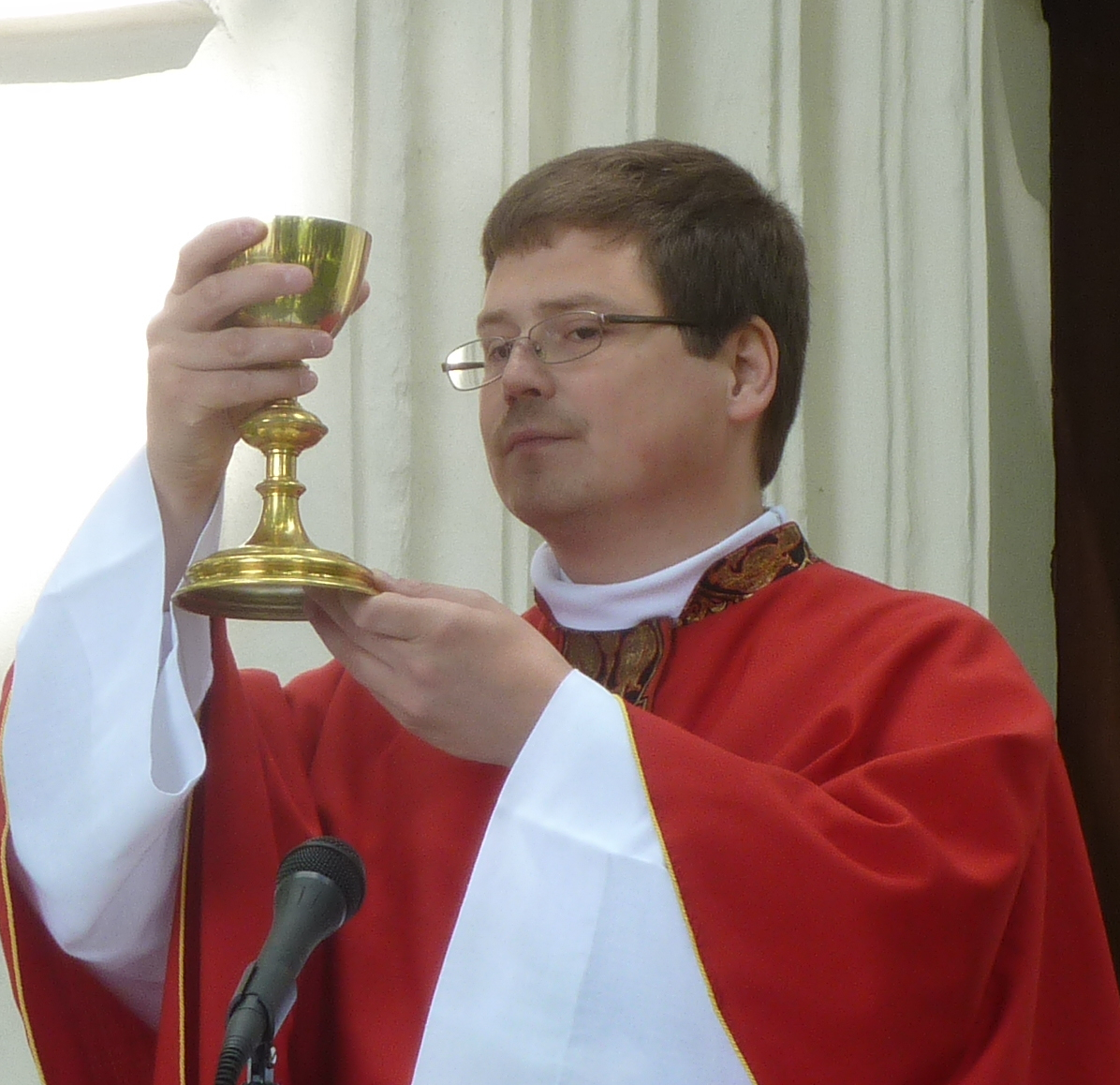 Jiří Korda celebrating a holy mass on the feast of St. John and Paul in Dobrš